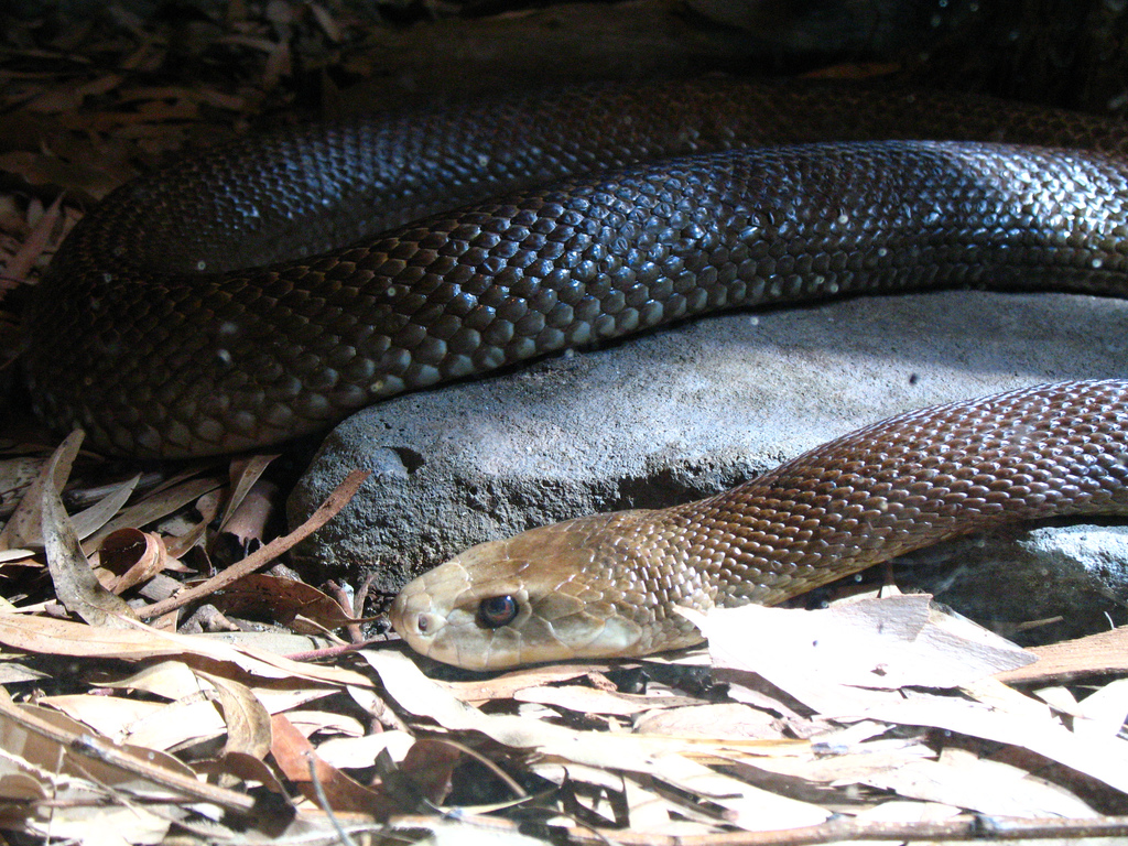 Coastal Taipan, Taronga Zoo, from behind a nice solid pane of glass.